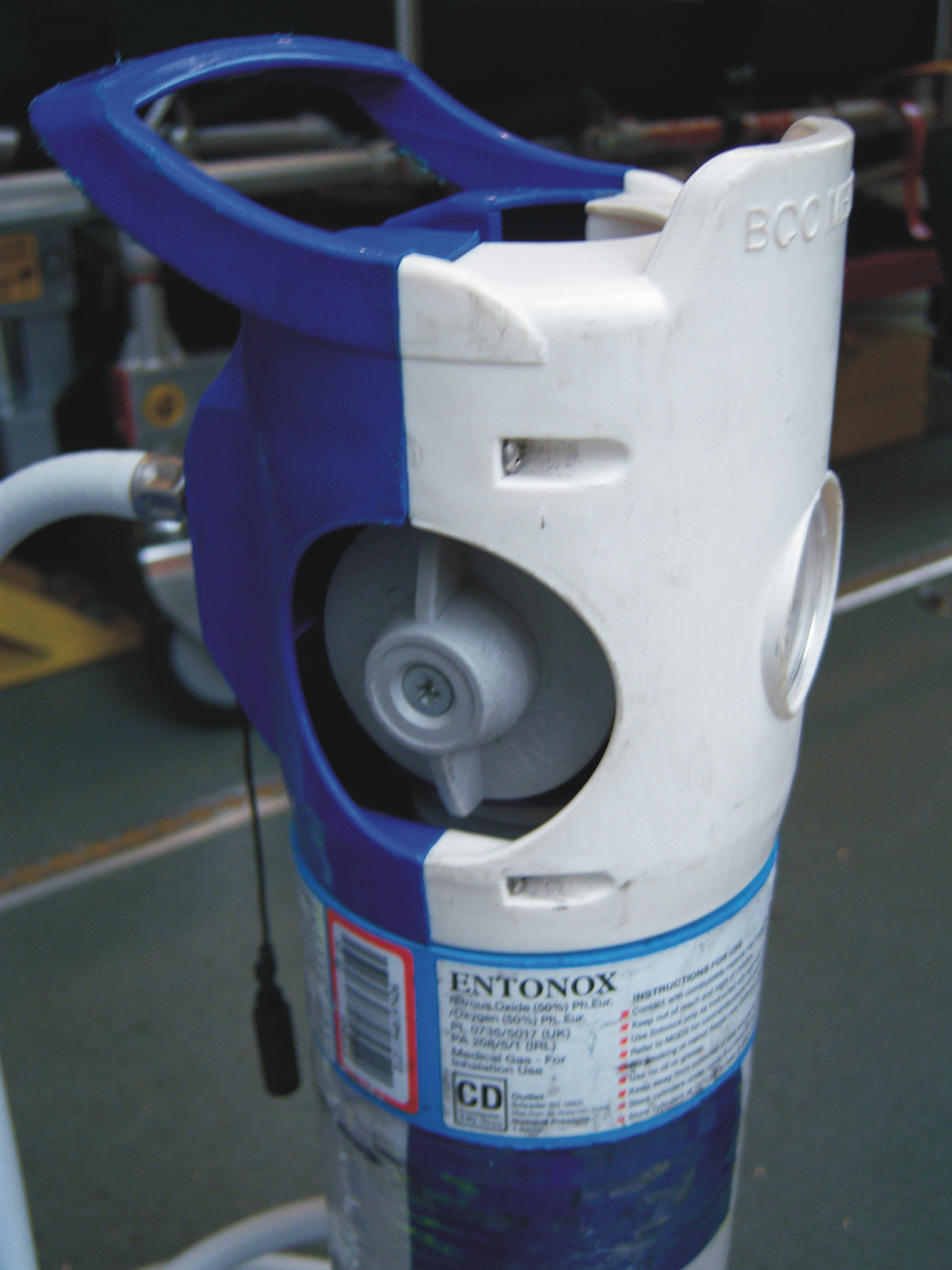 Shoulders of a CD Entonox cylinder